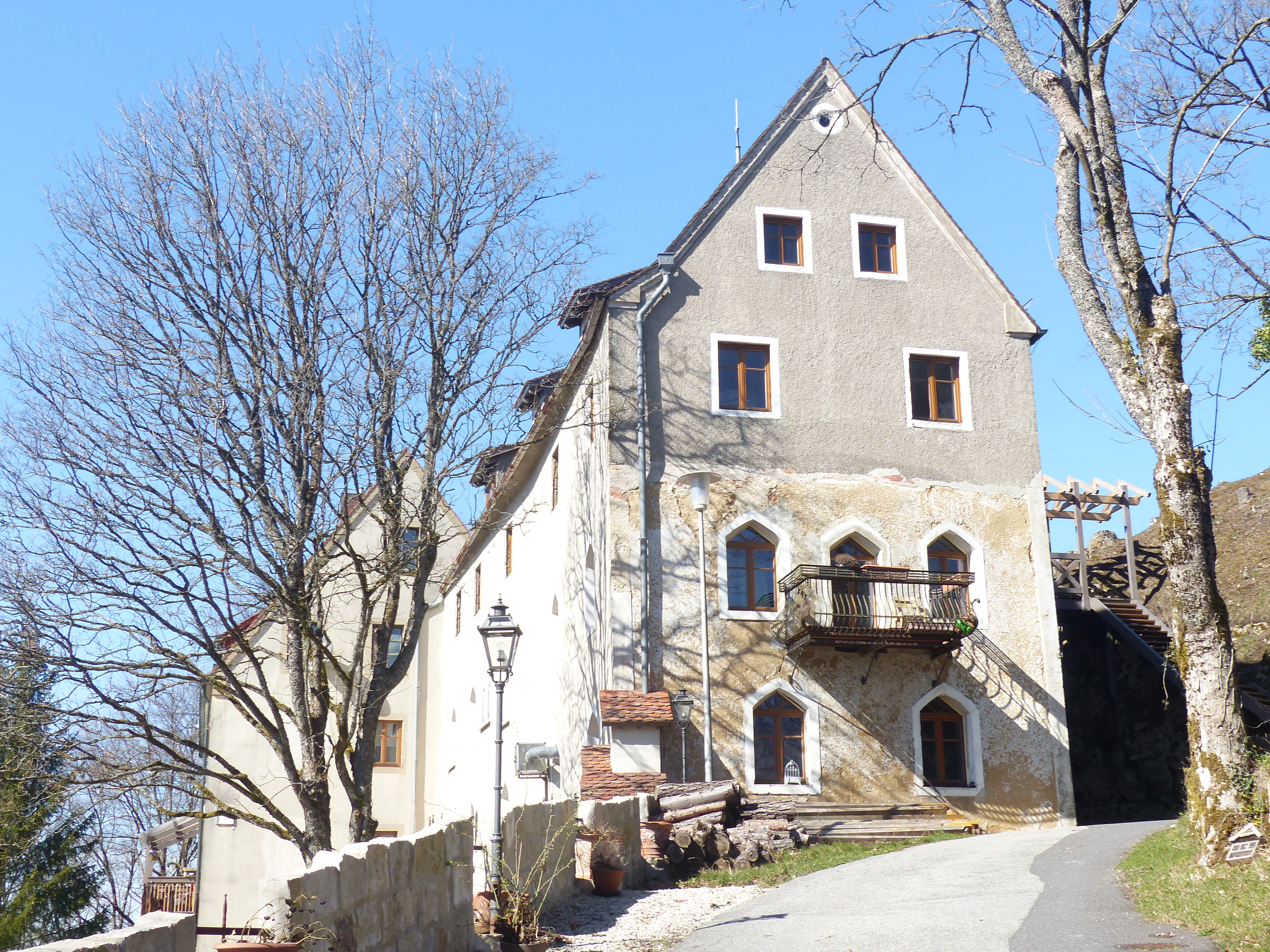 A former patrimonial court in the hamlet Rupprechtstein, a district of the municipality Etzelwang